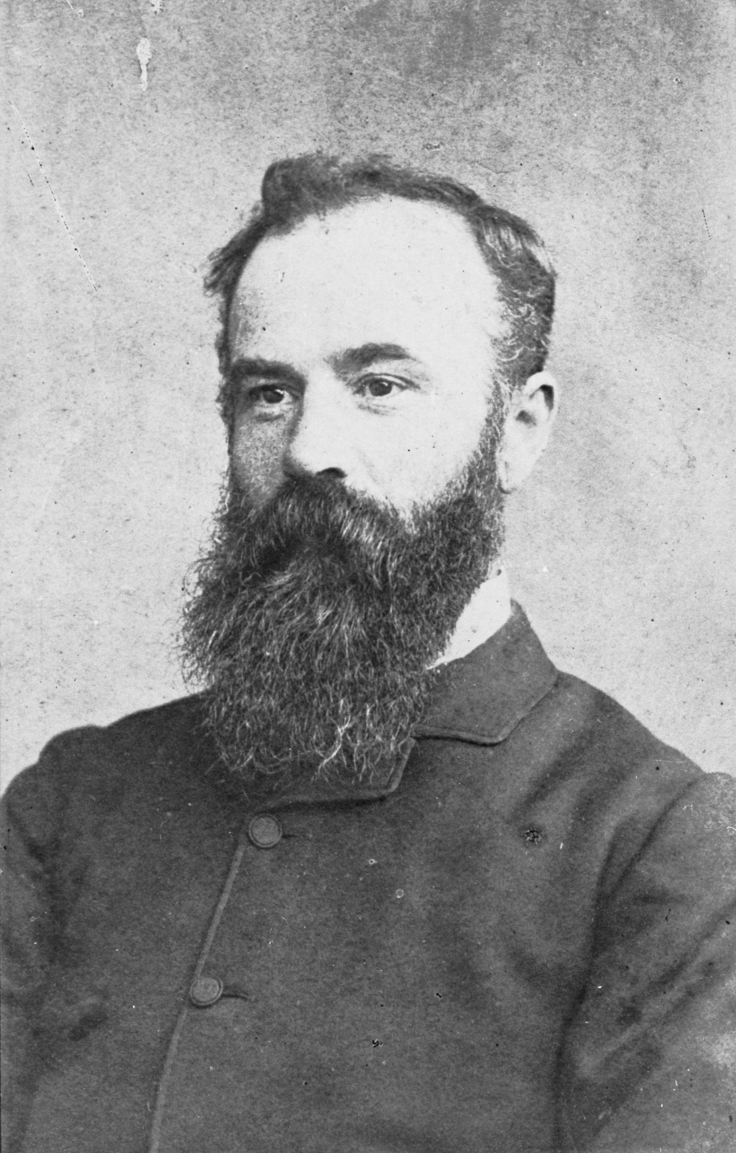 Roseworthy Agricultural College was opened on 3 February 1885 and the first residential students were admitted. The establishment of the college followed a series of recommendations by a commission on agricultural education formed in 1875, although it was not until 1882 that John Custance, appointed Professor of Agriculture, took up residence. Construction of the main building was begun in 1883. Photograph 23 December, 1910.